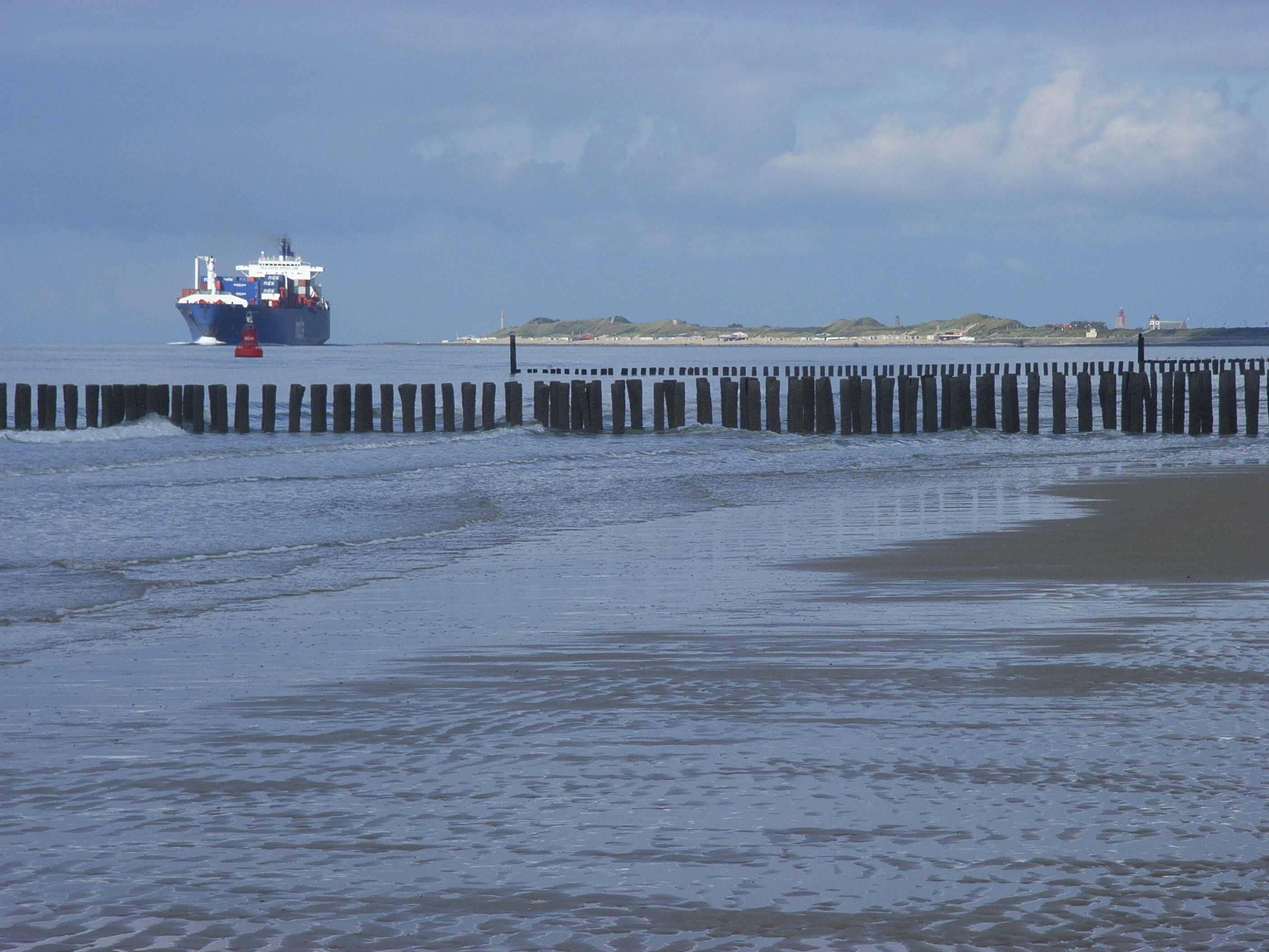 Coast of Walcheren (Zoutelande),NL